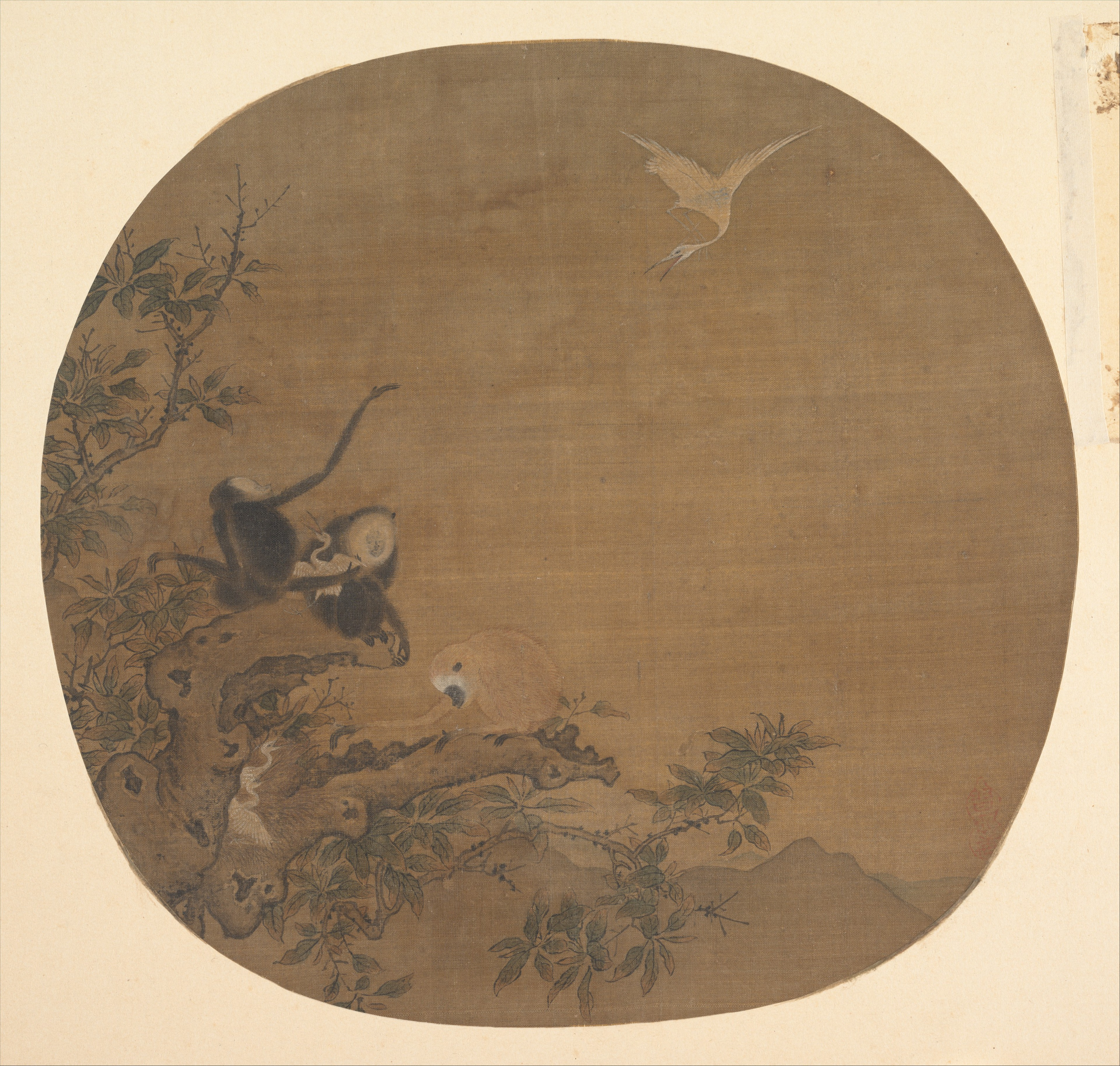 China; Fan mounted as an album leaf; Paintings